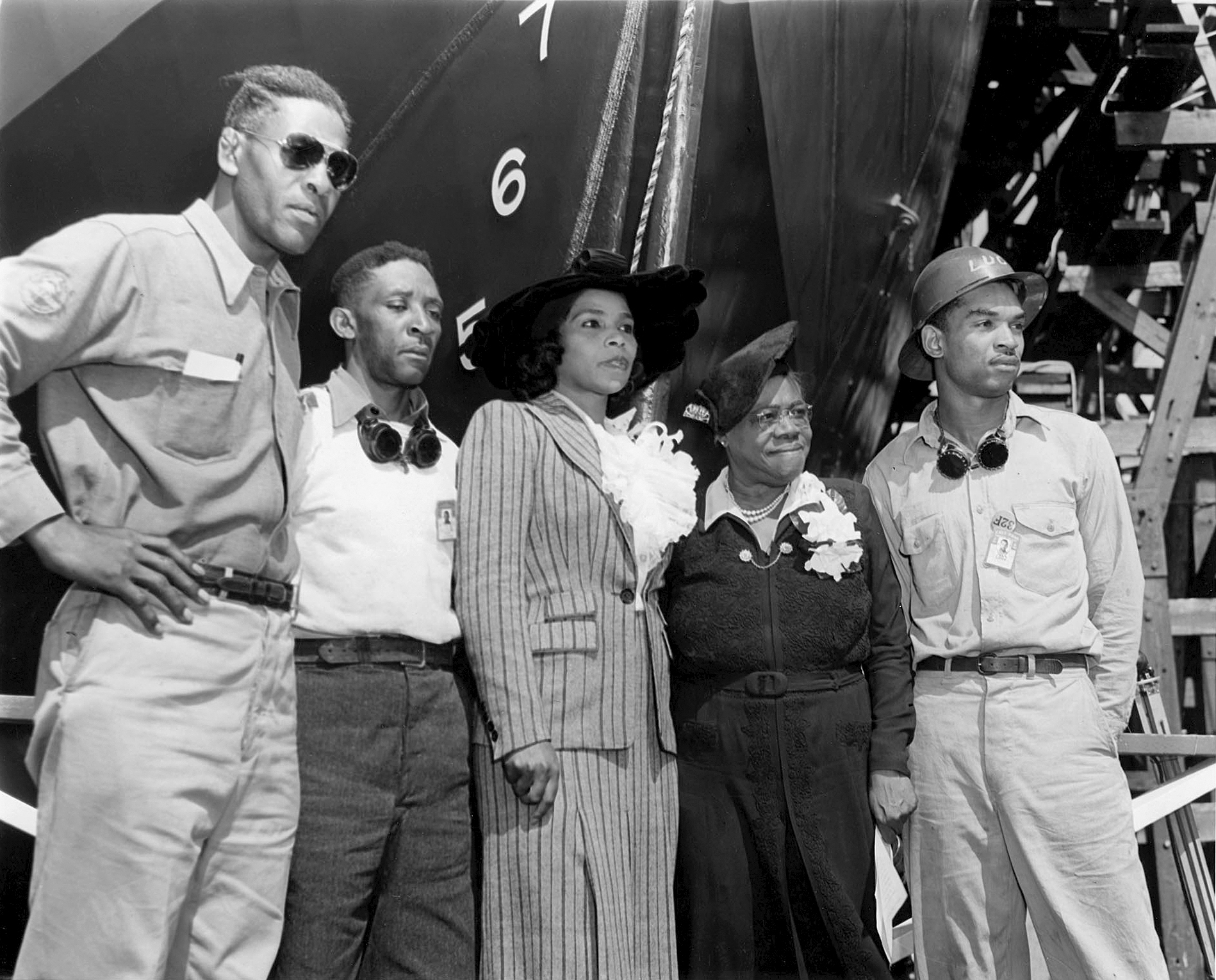 Marian Anderson celebrated contralto and Mary McLeod Bethune, Director of Negro Affairs in the National Youth Administration at the launching of the SS Booker T. Washington pictured here with a few unidentified workers who helped construct the first Liberty ship named for an African American at the California Shipbuilding Corporation's yards at Wilmington, CA. September 29, 1942, by Alfred T. Palmer, a photographer employed by the U.S. Office of War Information, an agency of the Office of Emergency Management.